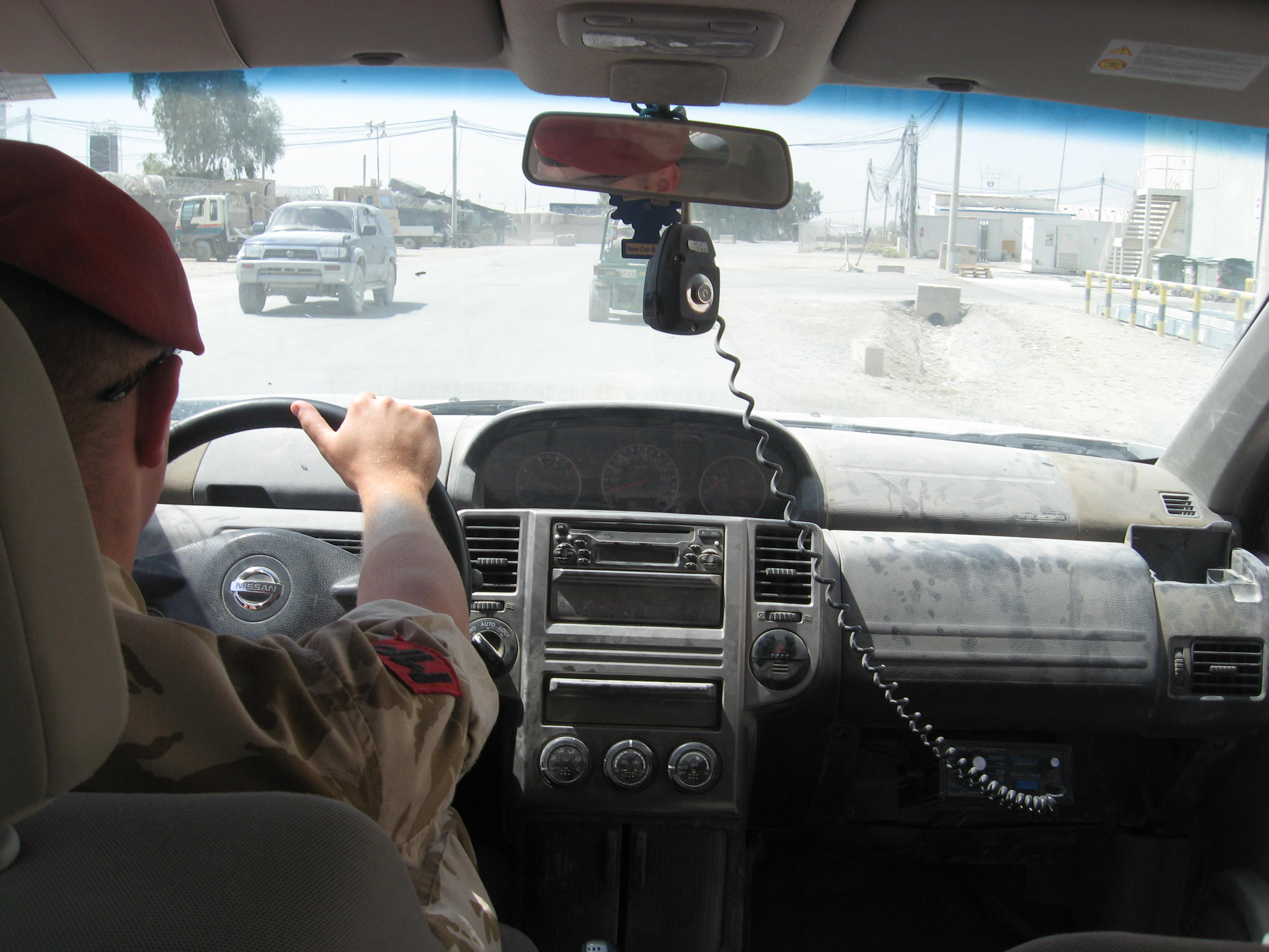 British Cpl. James O'Brien, a member of the SHAPE International Military Police who is currently deployed with NATO, takes part in a variety of law enforcement activities in Afghanistan. The military police from SHAPE partner with Servicemembers from numerous nations in their support of ISAF.